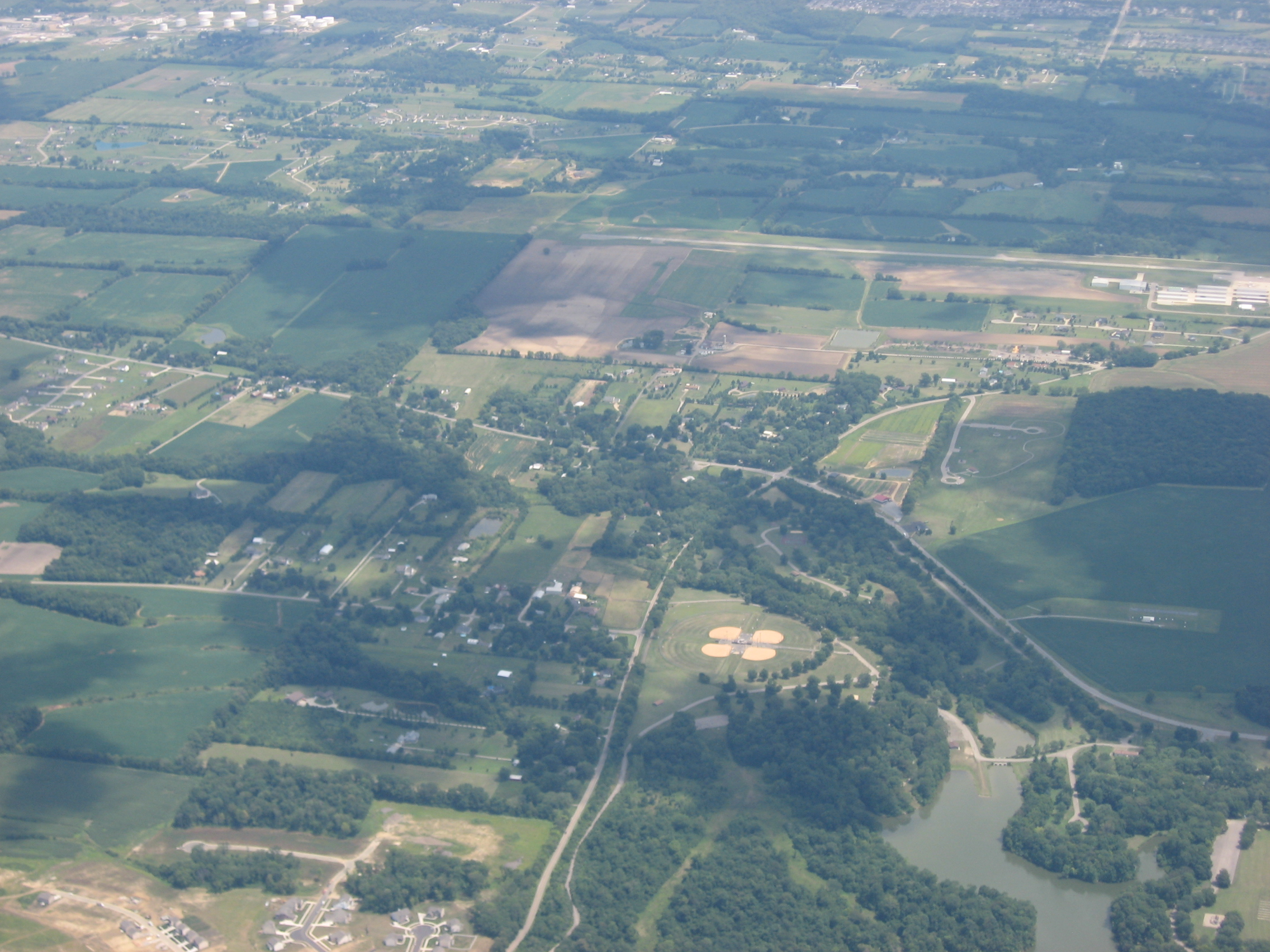 View of Greentree Corners, an unincorporated community in western Turtlecreek Township, Warren County, Ohio, United States, northwest of Lebanon. Greentree Corners is centered at the intersection near the center of the picture, with the Lebanon-Warren County Airport behind. Picture taken from a Diamond Eclipse light airplane at an altitude of 5,000 feet MSL and a bearing of approximately 90º.